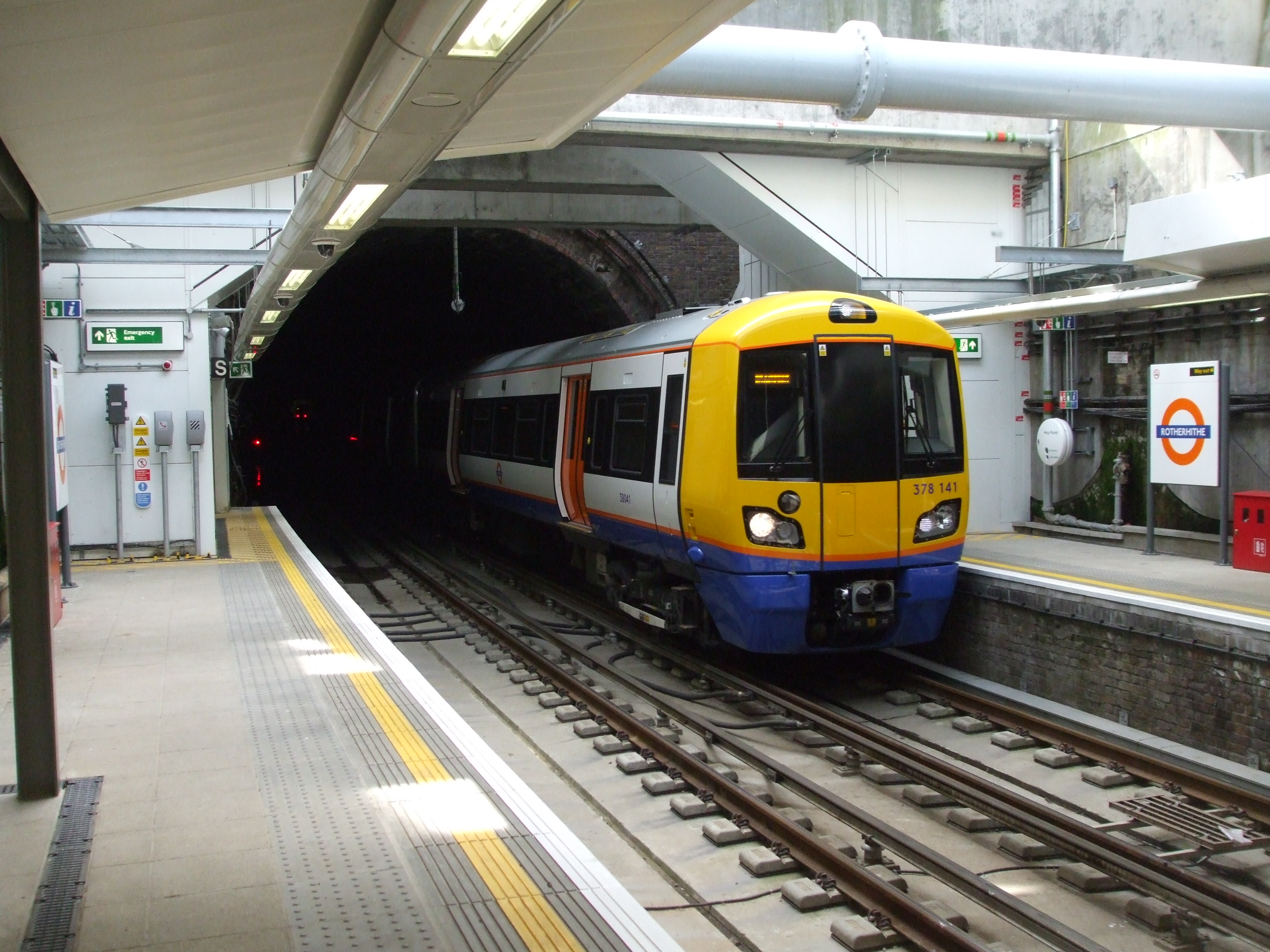 Class 378 unit 378141 calls at Rotherhithe station with a northbound service, a day after re-opening as part of London Overground, 27 April 2010.